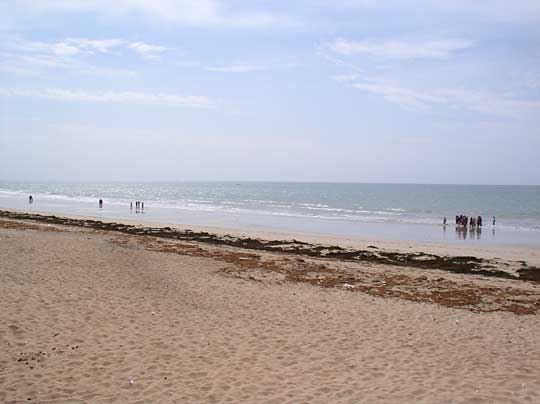 I just love the sea! I took this from the window of our hut at sands pit, testing the light.